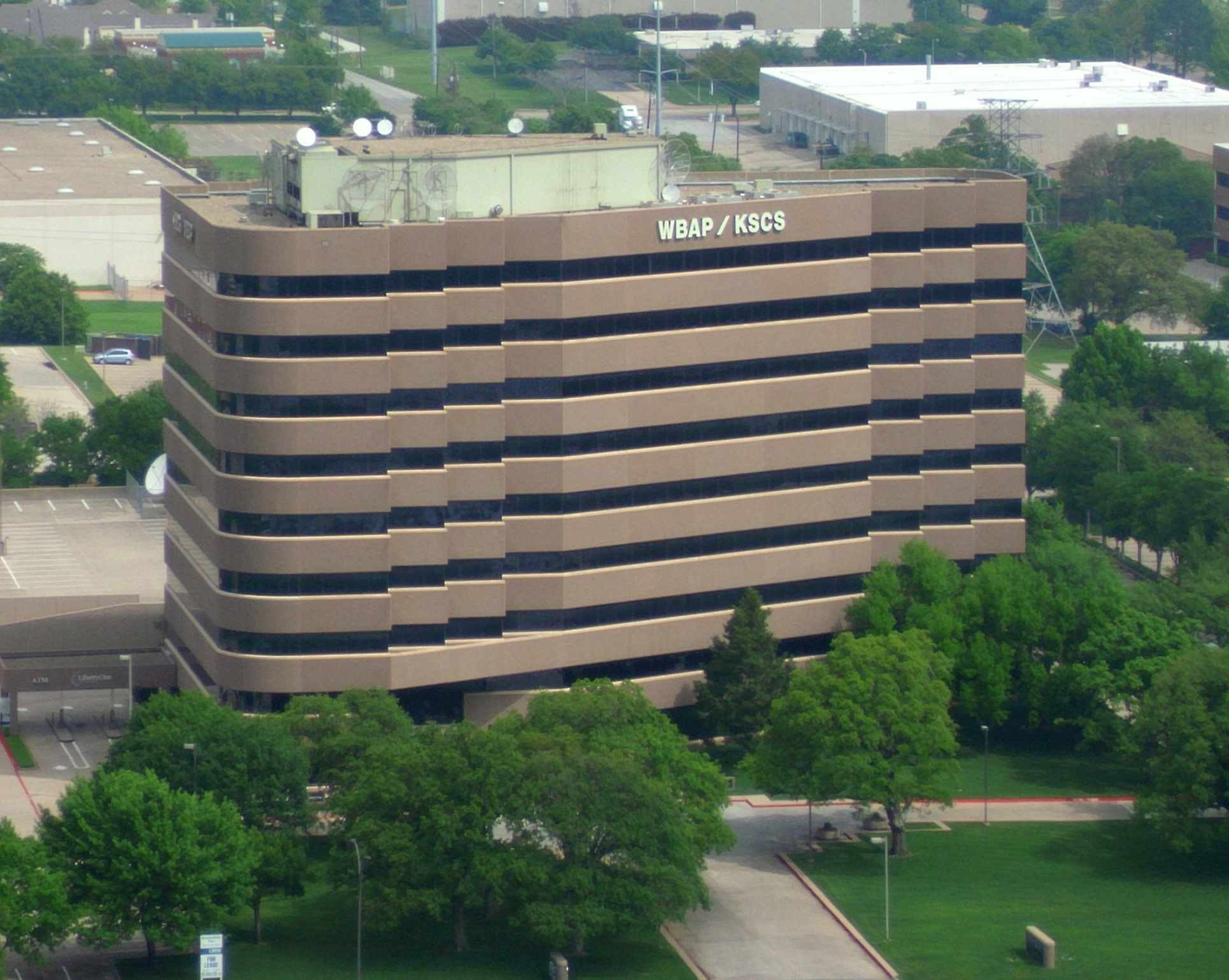 The WBAP/KSCS facility in Arlington, TX as seen from the Oil Derrick Observation Tower at Six Flags Over Texas. The WBAP/KSCS signs have since then been removed after the studios were moved to Victory Park in Dallas.